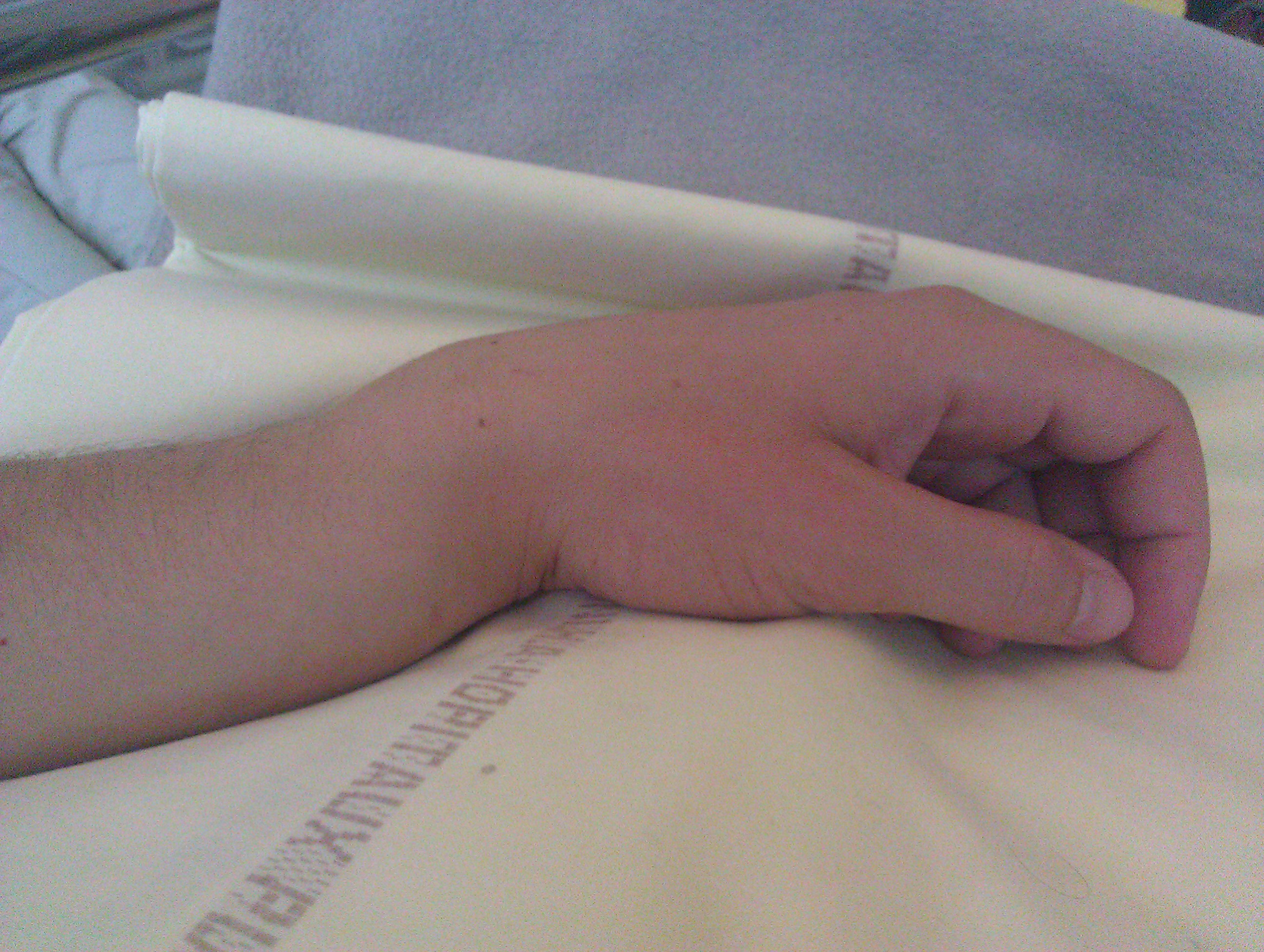 My own wrist after a Colles' fracture. The posterior displacement is easily visible.